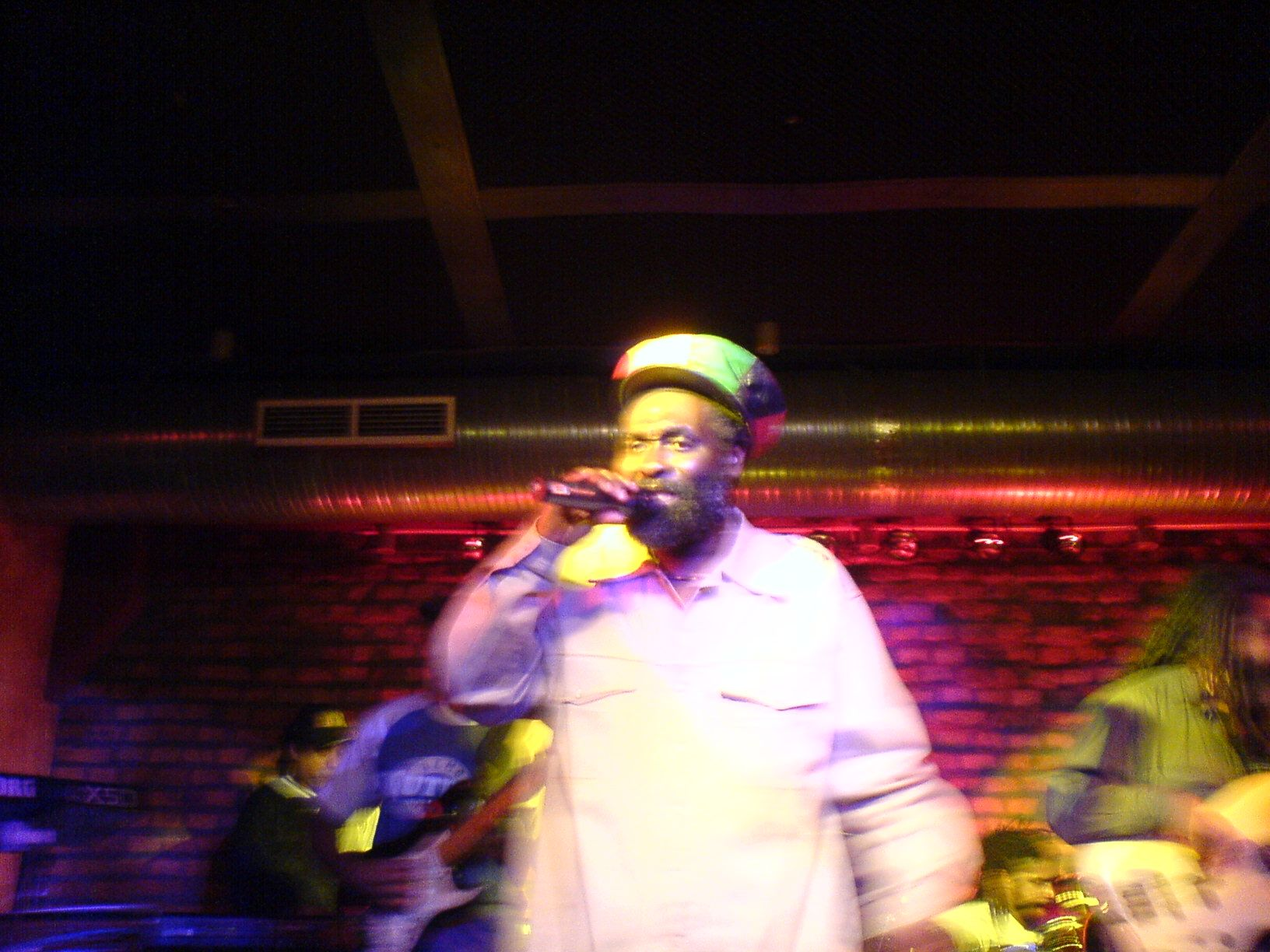 Mikey Dread, jamaican singer, producer, and broadcaster